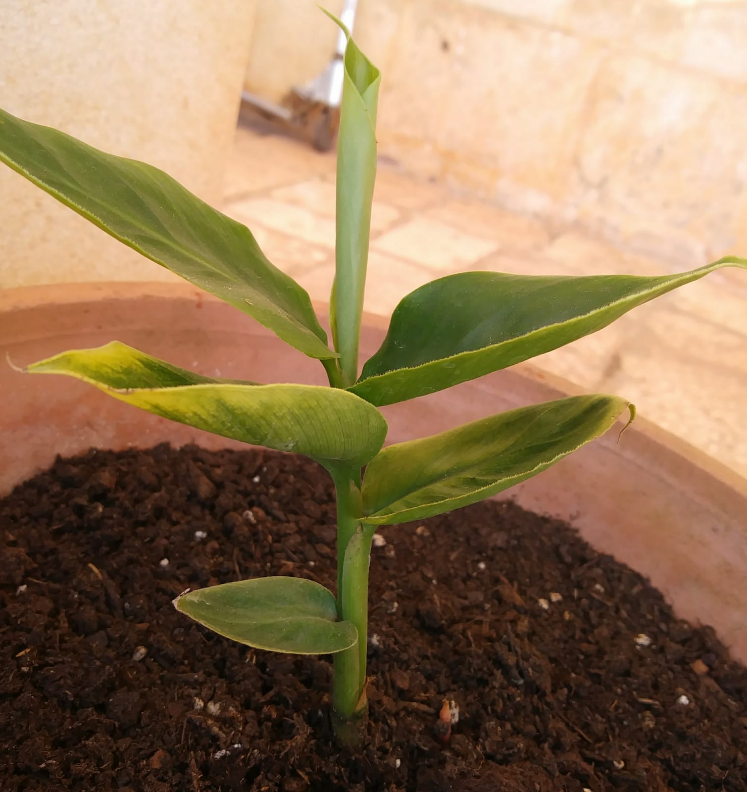 An Alpinia nutans seedling, less than year old in a pot.